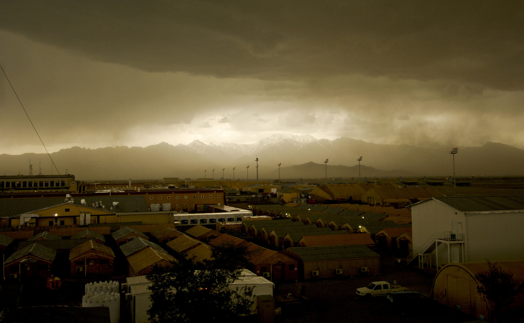 A storm rolls into Bagram Air Field, Afghanistan, April 20. The 455th Expeditionary Operations Support Squadron, combat weather team, uses a variety of techniques to predict weather. They use of a Mark IV satellite and visual reference to determine type and severity of storm to better prepare personnel on BAF to maintain mission effectiveness. Rainstorms are frequent this time of year and have the ability to change the landscape to include rivers and streams. With the lack of drainage systems, floods occur regularly throughout the southeast region of Afghanistan. Precipitation in east and southeast regions is about forty centimeters per year. 455th Air Expeditionary Wing Photo by Senior Airman Erik Cardenas Date: 04.20.2009 Location: BAGRAM AIR FIELD, AF Related photos